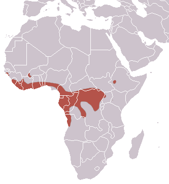 Hammer-headed Bat (Hypsignathus monstrosus) range